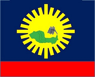 Flag of Municipio Pampán